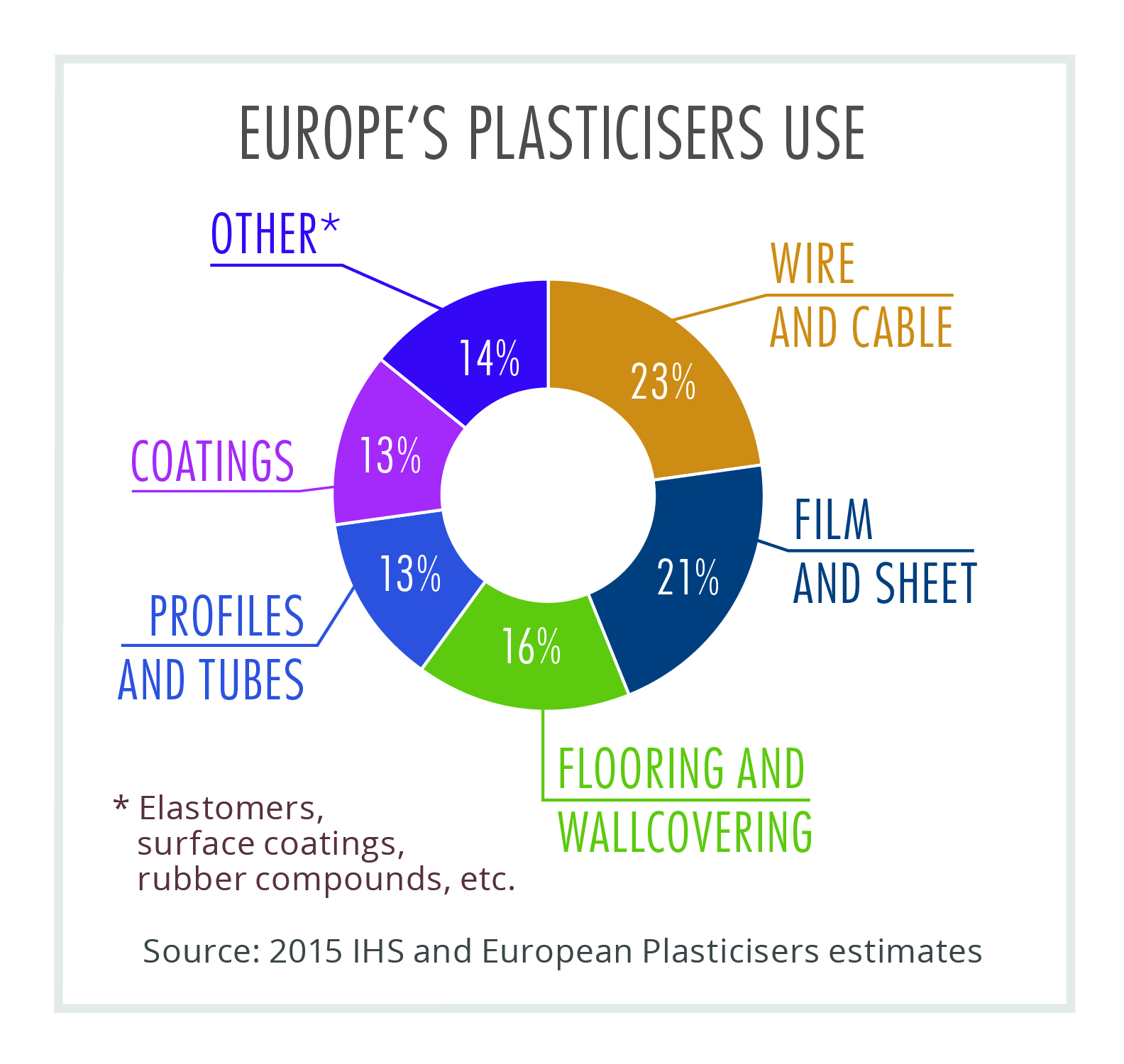 2015 Review of the different end use applications where plasticiser is used